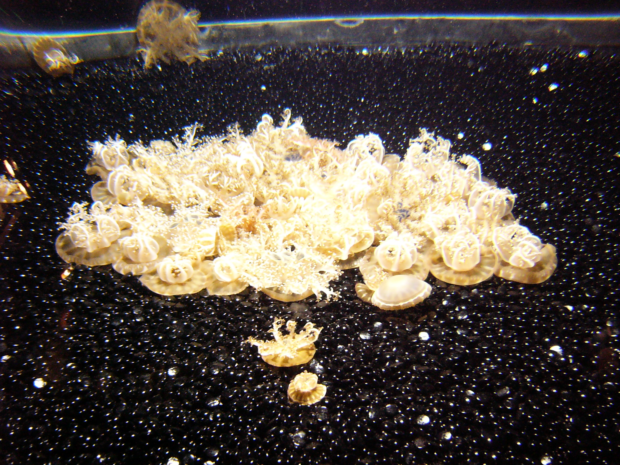 Many species of jellyfish are capable of congregating into large swarms or "blooms", consisting of hundreds of individuals. The formation of these blooms is a complex process that depends on ocean currents, nutrients, temperature and ambient oxygen concentrations. Jellyfish sometimes mass breed during blooms. During such times of rapid population expansion, some people will raise ecological concerns about the potential noxious effects of a jellyfish "outbreak". Location: Monterey Aquarium